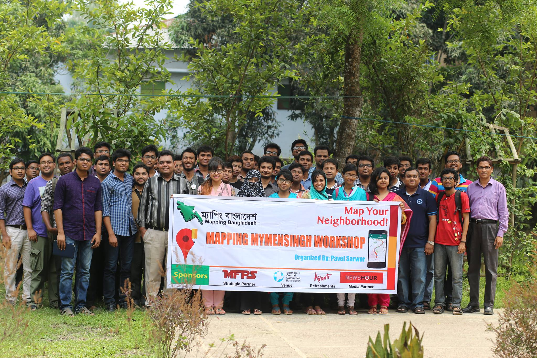 The event was organized in Mennonite Central Committee in Mymensingh on April 17, 2015.